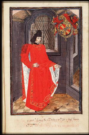 Statuts, Ordonnances et Armorial de l'Ordre de la Toison d'Or (Statutes, Ordonnances and armorial of the Order of the Golden Fleece) Place of origin, date: Southern Netherlands; 1473. Added sections: Southern Netherlands; 1478 or shortly after and 1491 or shortly after Material: Vellum, ff. 86, 249x187 (167x106) mm, 23 lines, littera cursiva (lettre bourguignonne). French. Binding: 18th-century brown leather Decoration: 1 full-page miniature (170x115 mm) with border decoration; 92 miniatures (185/155x120/100 mm); 1 historiated initial (80x90 mm) with border decoration; decorated initials with border decoration (ff., Added section: miniatures ; 4 drawings for miniatures (not finished) Provenance: Presented in 1473 by Gilles Gobet, King of Arms of the Order of the Golden Fleece, to Charles the Bold, Duke of Burgundy and the other Knights during the Chapter of the Order held at Valenciennes; Treasure of the Golden Fleece, Brussls; taken away by the Treasurer C.-F. Humyn (d. 1735) or his daughter C.Ch. de Corte; by legacy to her daughter M.-L. de Corte, wife of Ph.-E. de Poederlé; purchased in 1781 at the Poederlé sale by G.-J- Gérard of Brussels; acquired in 1832 as part of the Gérard collection (no. A 27)